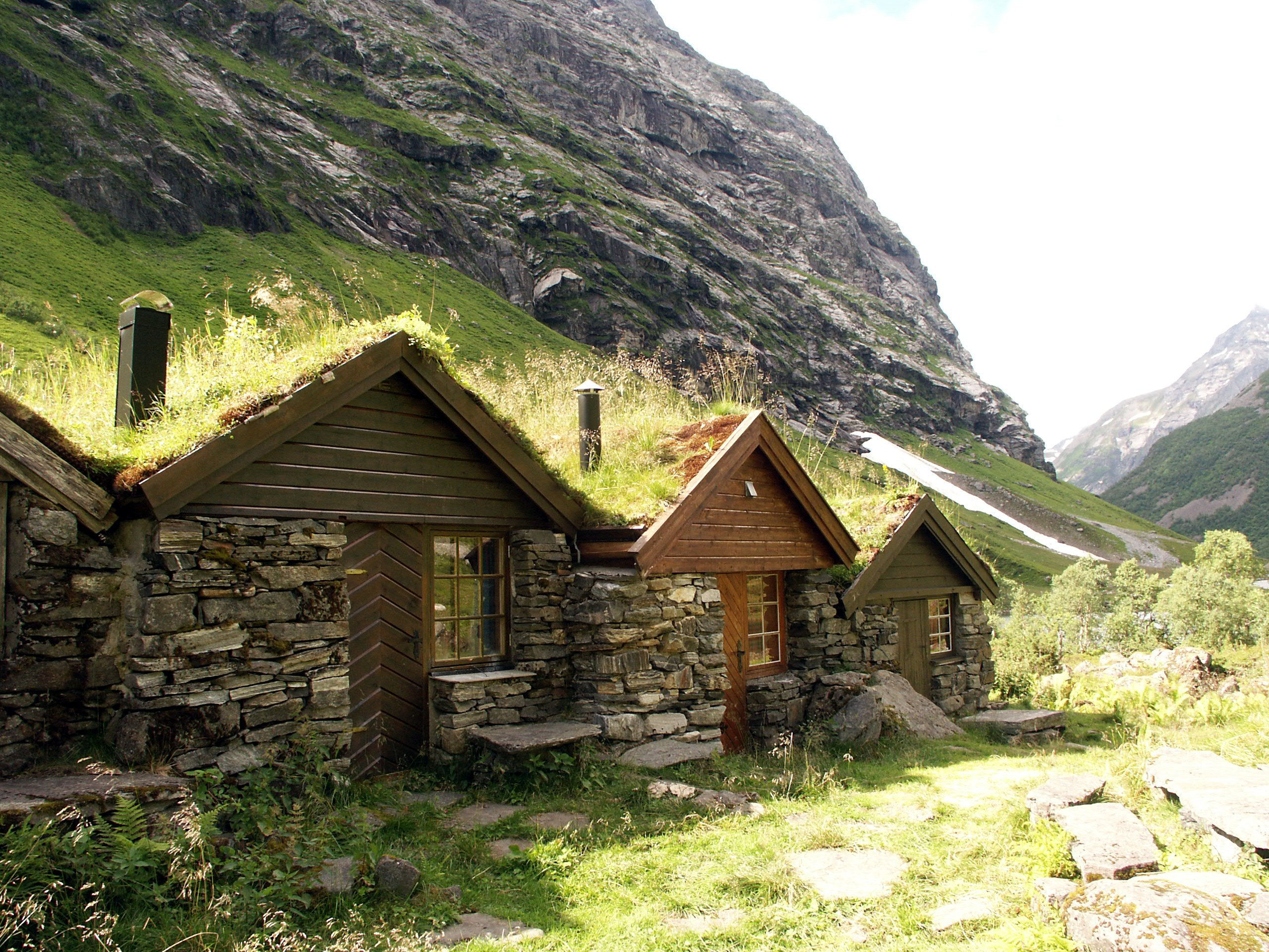 Summerfarm, Nordangsdalen, More and Romsdal, Norway.